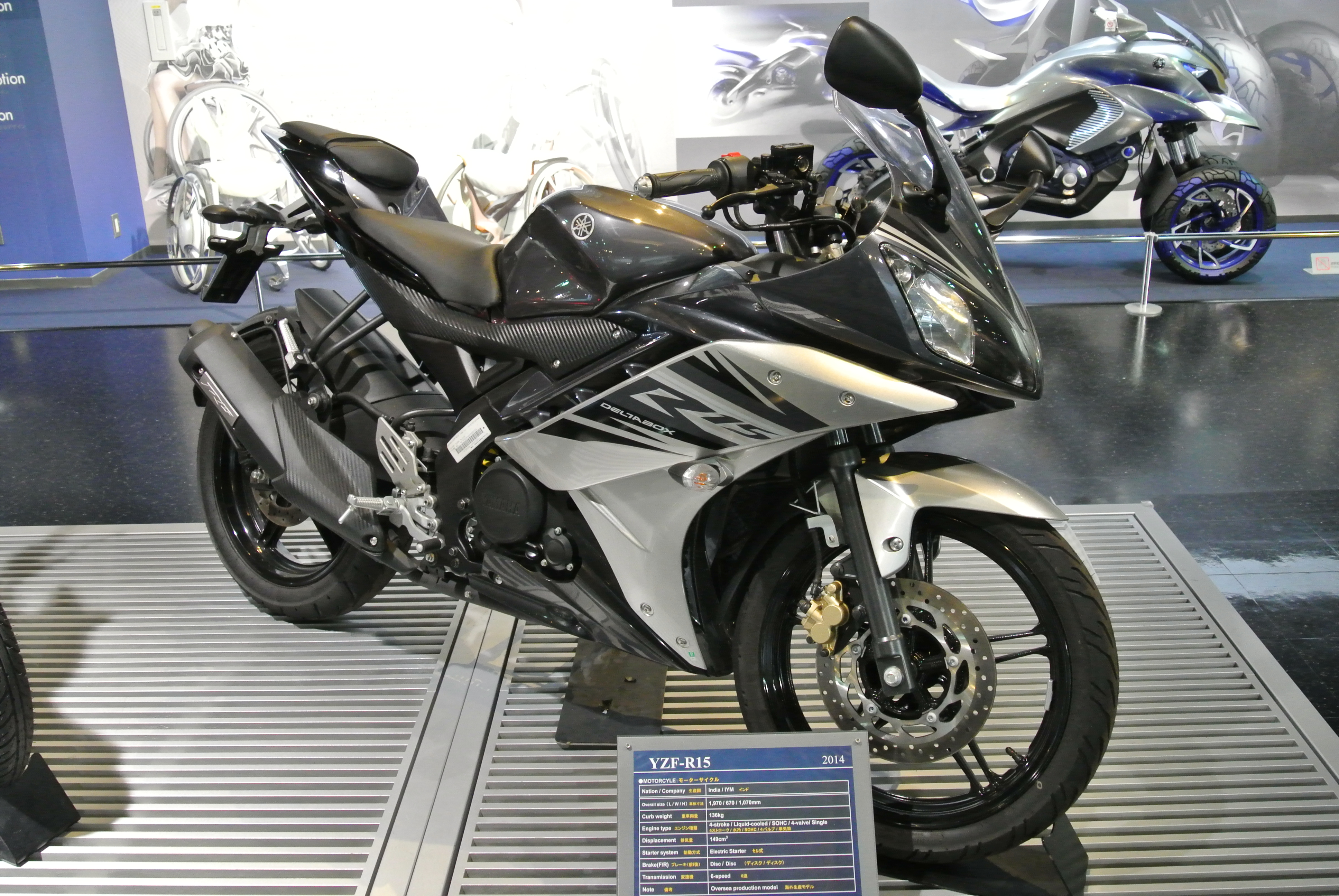 2014 Yamaha YZF-R15 in the Yamaha Communication Plaza.